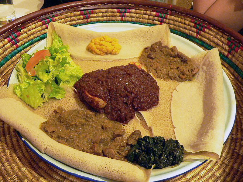 Alicha Begie and chicken, typical cusine from Eritrea